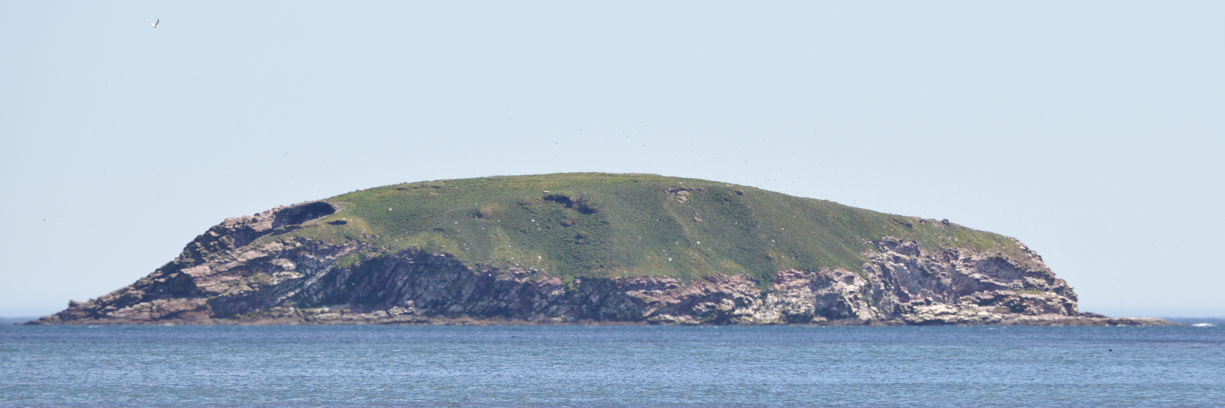 Green Island viewed from Ragged Cove in Witless Bay, Newfoundland and Labrador, Canada.